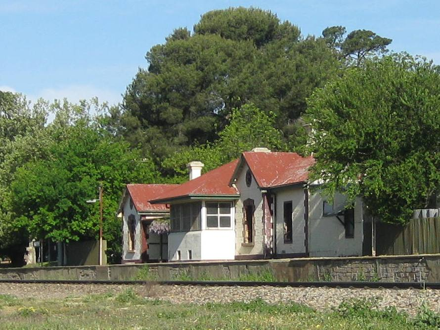 Main railway station building of the former Nairne railway station.